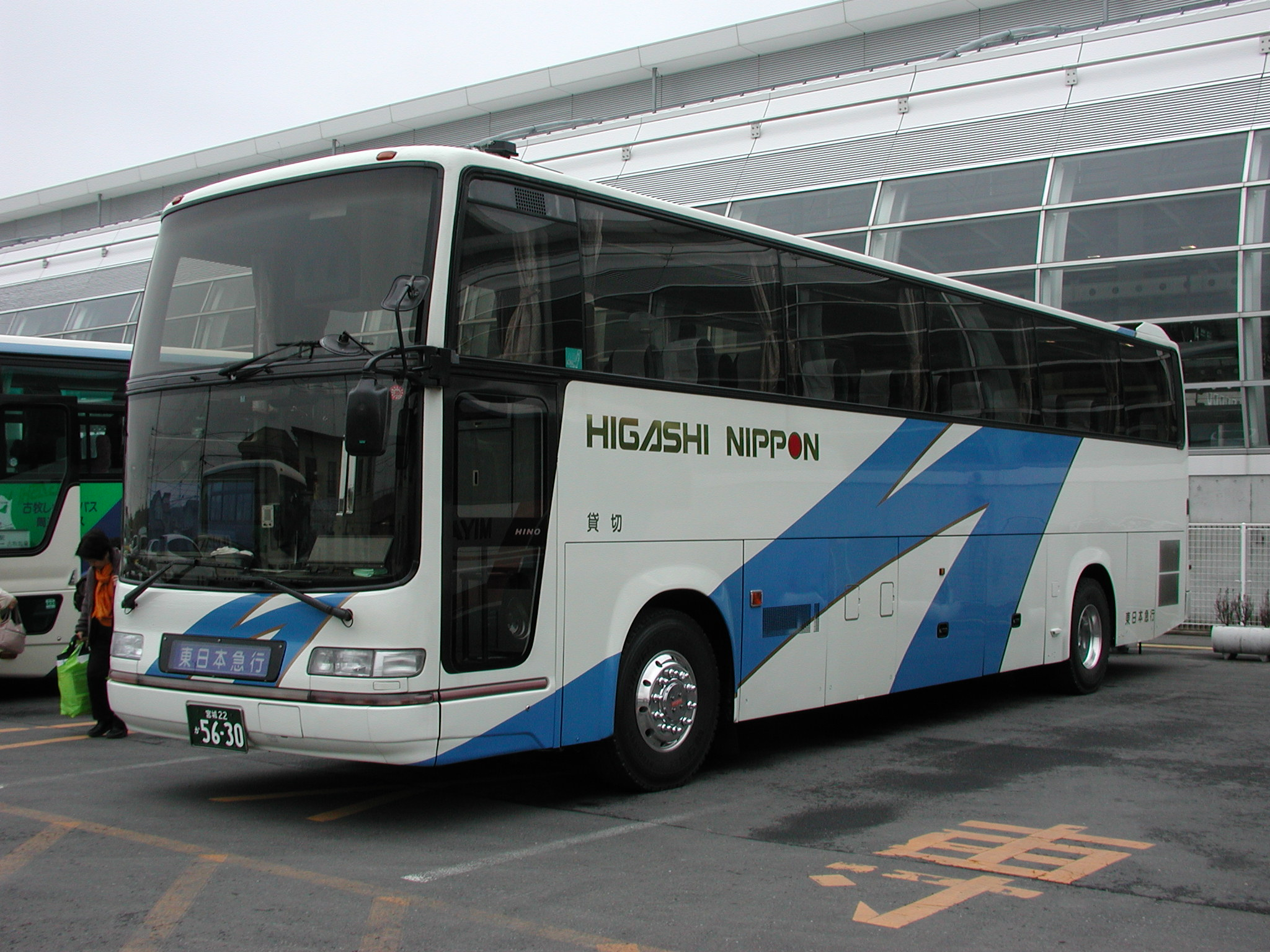 Generally reserved car-East Express (Hino Serega GJ: U-RU3FTAB) at Hachinohe Station West